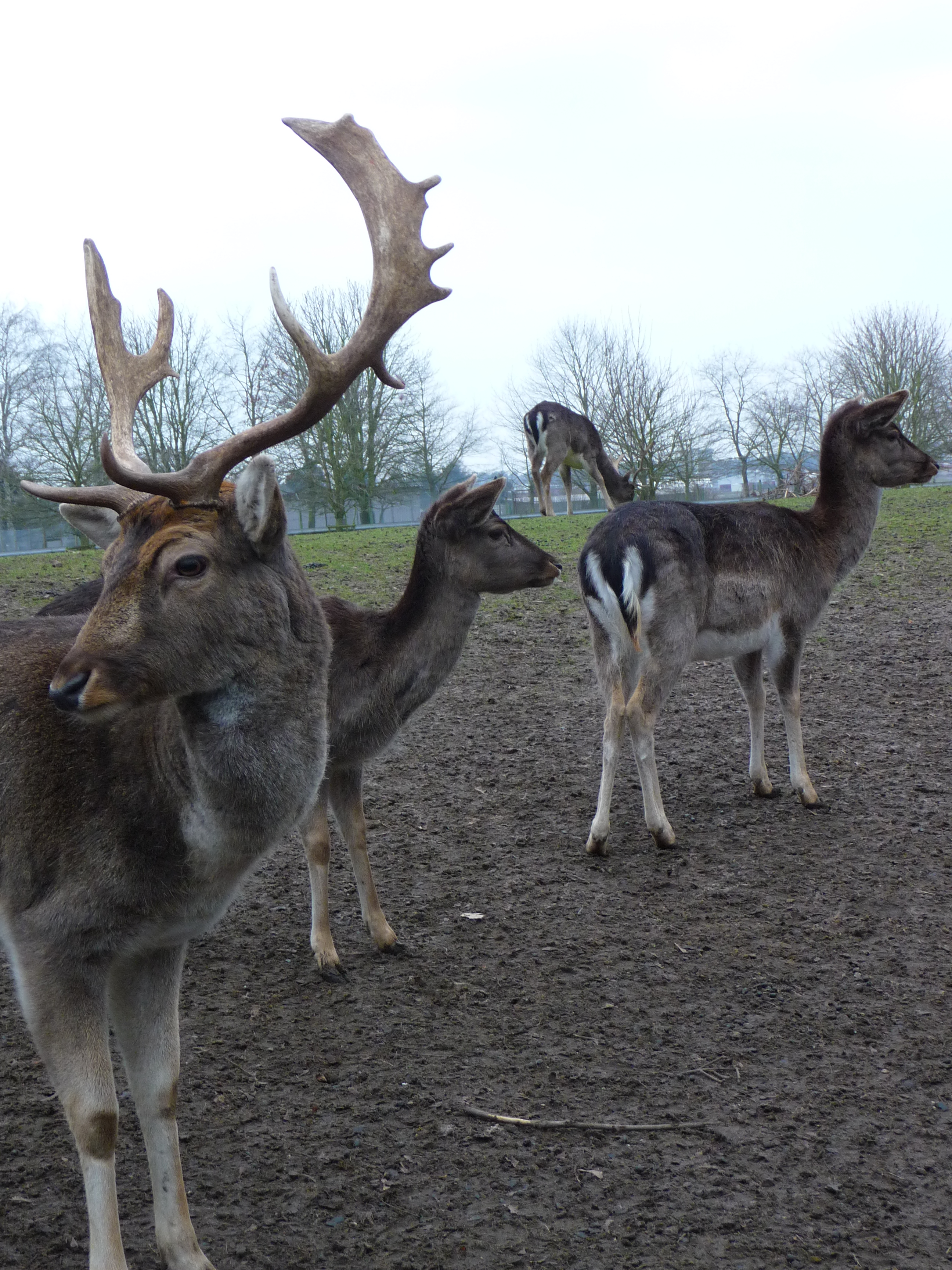 Fallow Deers (Dama dama), male and females in winter coat (Baden-Württemberg, Germany).